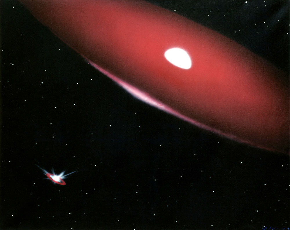 Life near the double-star system of Phi Persei is never dull, as this illustration shows. Taken from the perspective of one of the Hubble Space Telescope observations of Phi Persei, this artist's depiction provides a taste of the double- star system's unstable existence. The bright "Be" star - a type of hot star with a broad, flattened disk - is the white, semicircular object looming in the upper right of the illustration. The red, pancake-shaped object surrounding the star is a gas disk. The gas is material the star is losing because of its rapid rotation. The small, hot subdwarf is in the lower left of the illustration. The blasts of white light represent particles of material - called a stellar wind - being released by the star. This powerful stellar wind is heating part of the "Be" star's gas disk. The red ring of material surrounding the subdwarf was probably formed from the "Be" star's outflow of gas. The subdwarf is moving toward the right in its 126-day orbit around the "Be" star.